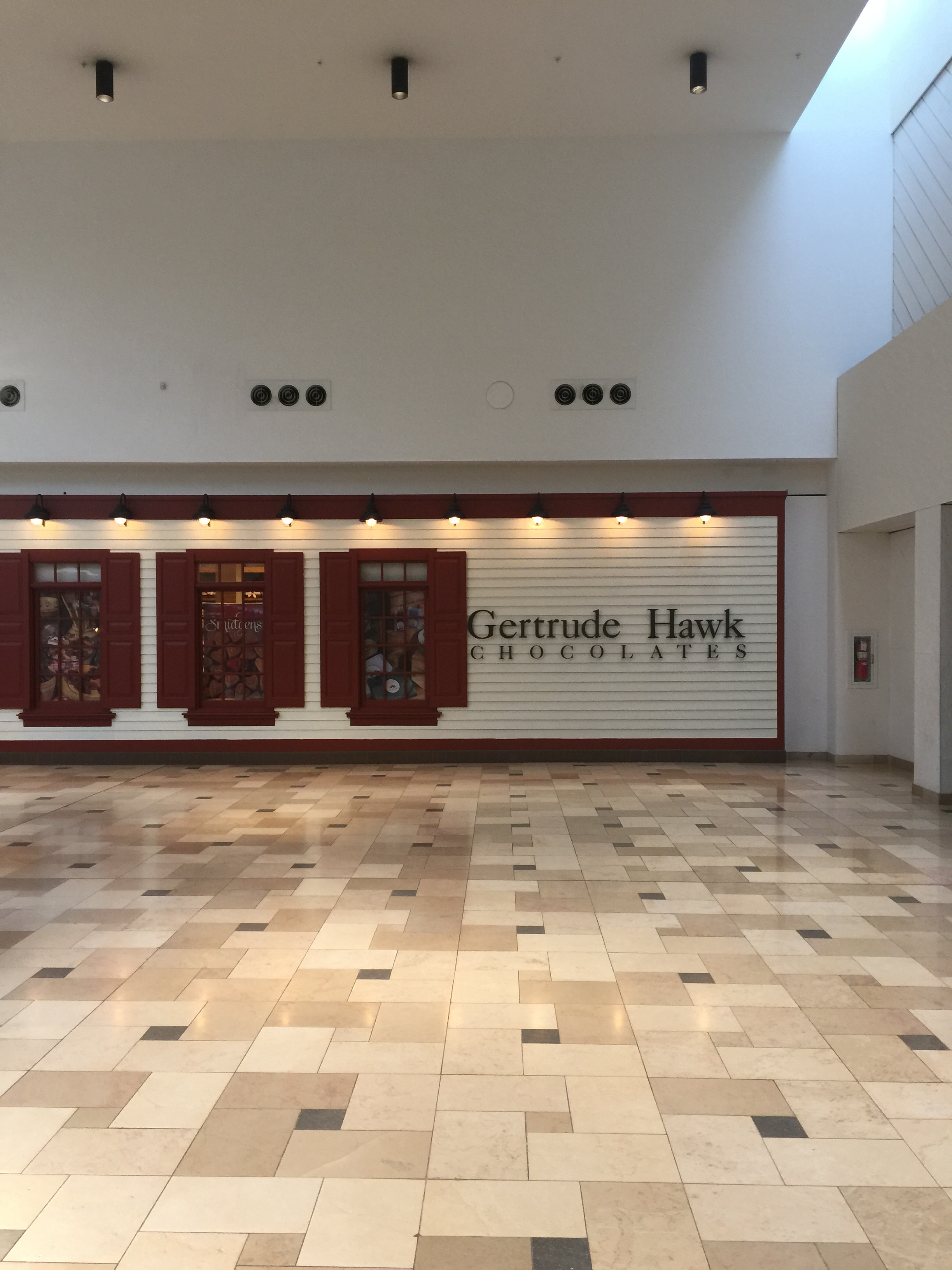 Gertrude Hawk Chocolate store from my iPhone in Exton square mall